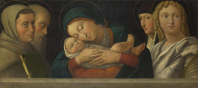 The Virgin and Child with Four Saints about 1490-1510